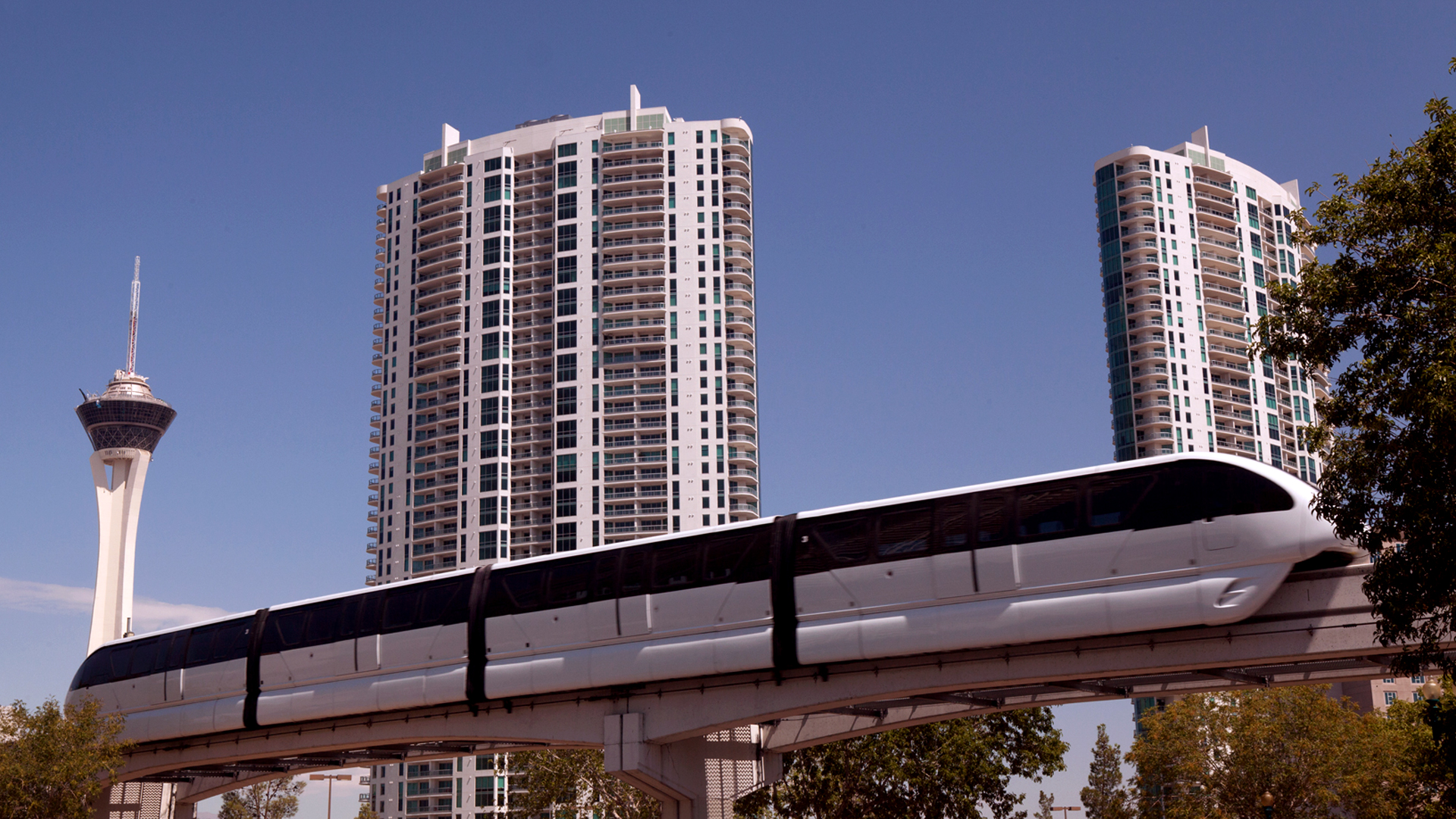 Photo of the Las Vegas Monorail Passing in front of Turnberry Towers Las Vegas. The Stratosphere tower is in the background.